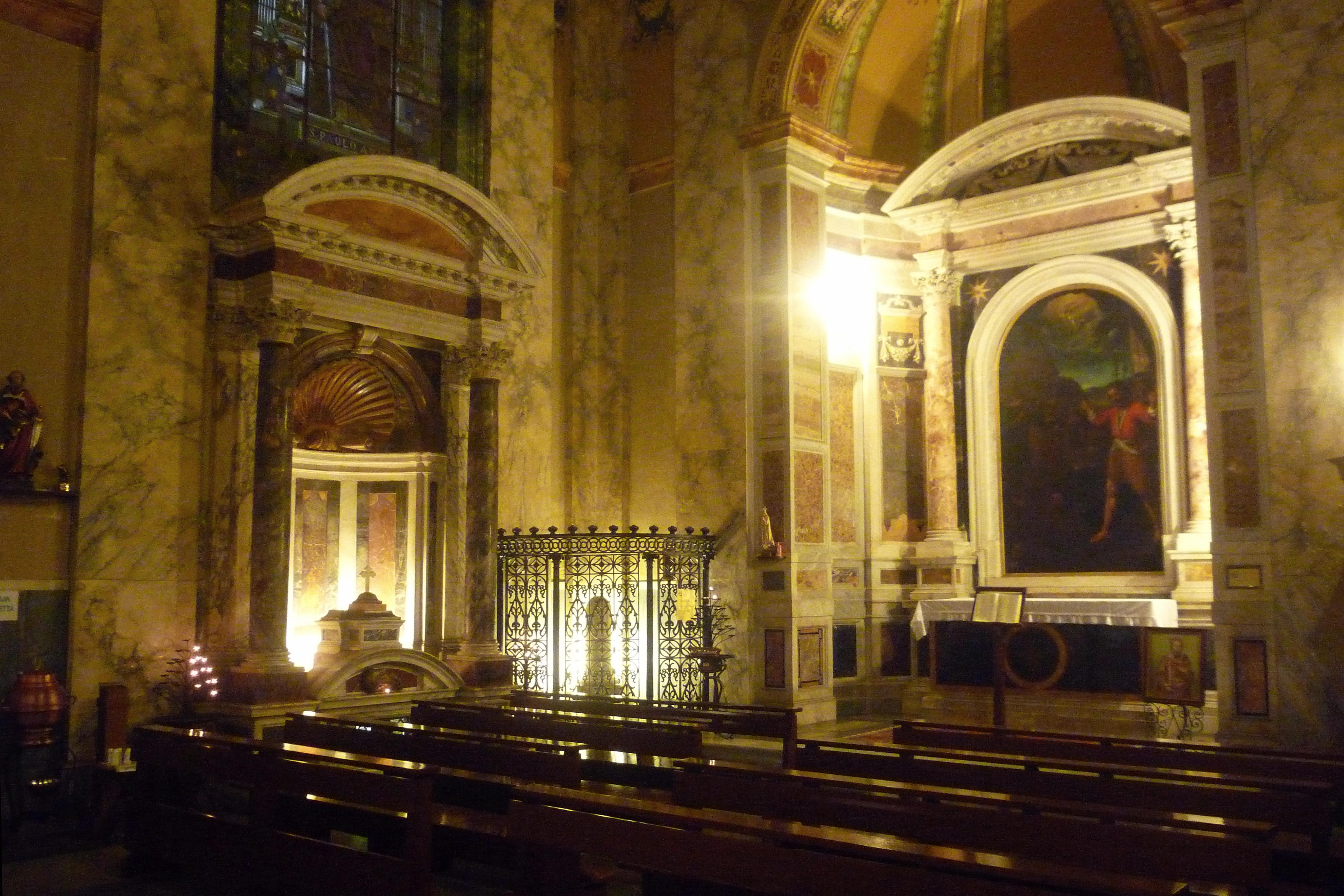 Church of Saint Paul Apostle, "Tre Fontane" Abbey, Rome - Italy